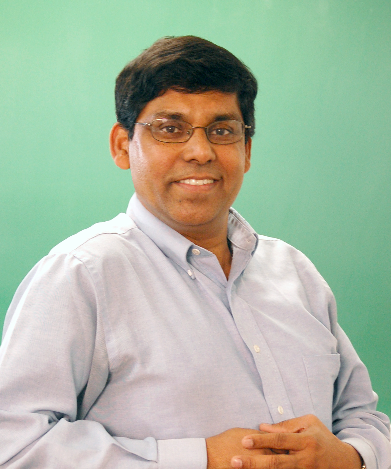 Sajal K. Das photo.